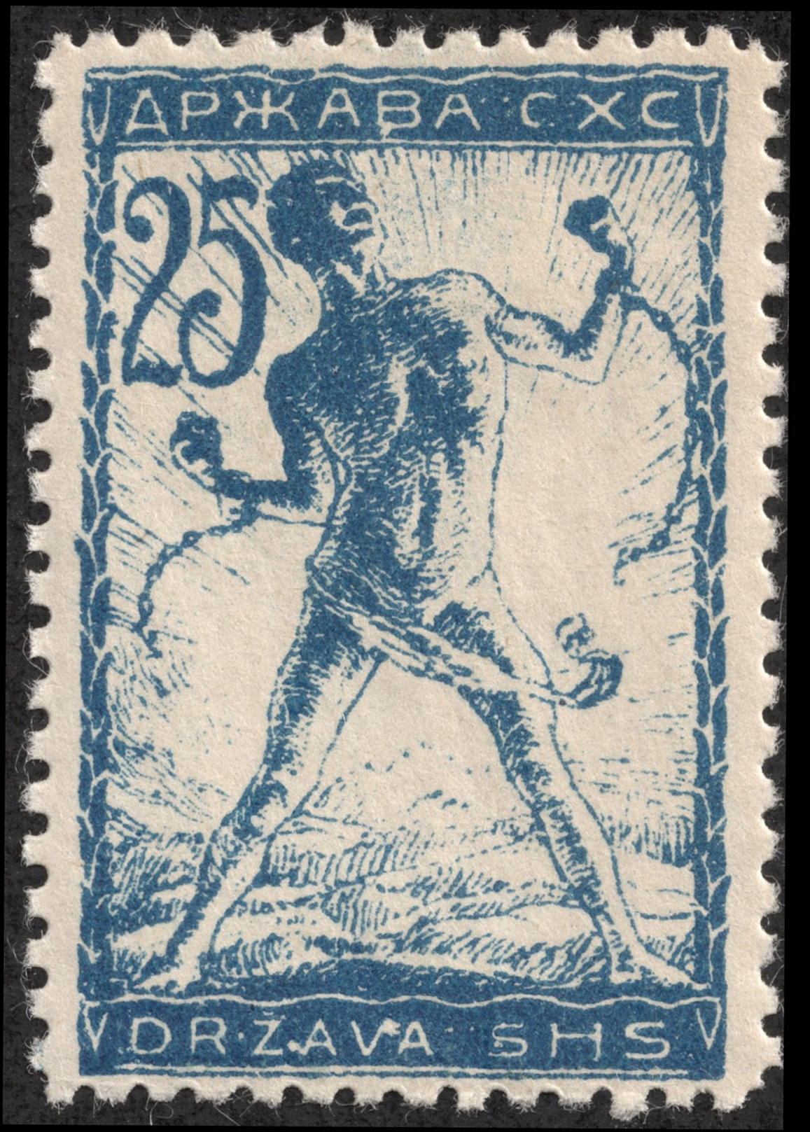 Postage stamp from the Verigar issue issued in Slovenian regions of the State of Slovenes, Croats and Serbs, 25 hellers, 1919 (Scott#3L6)